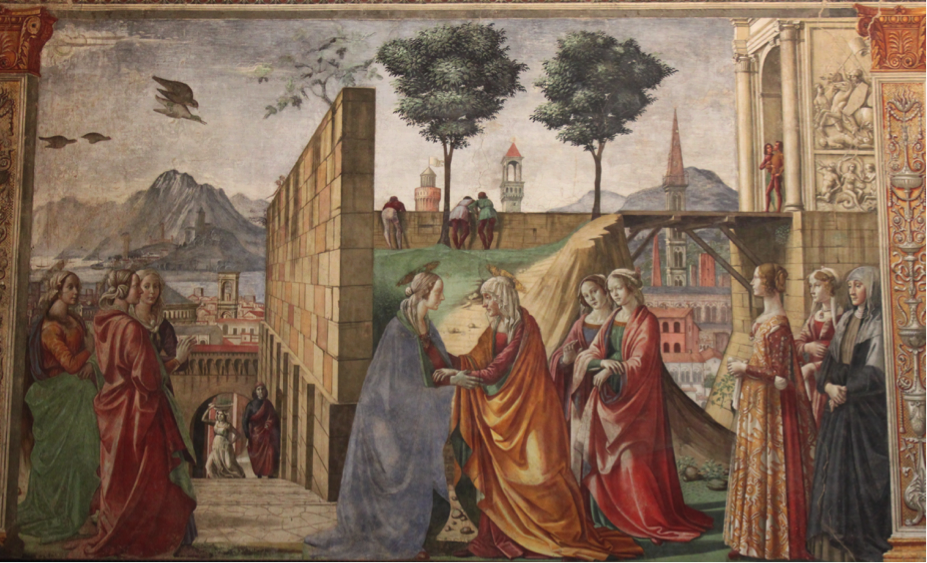 Domenico Ghirlandaio and workshop, visitation, 1486–1490, fresco, Tornabuoni chapel, Santa Maria Novella, Florence